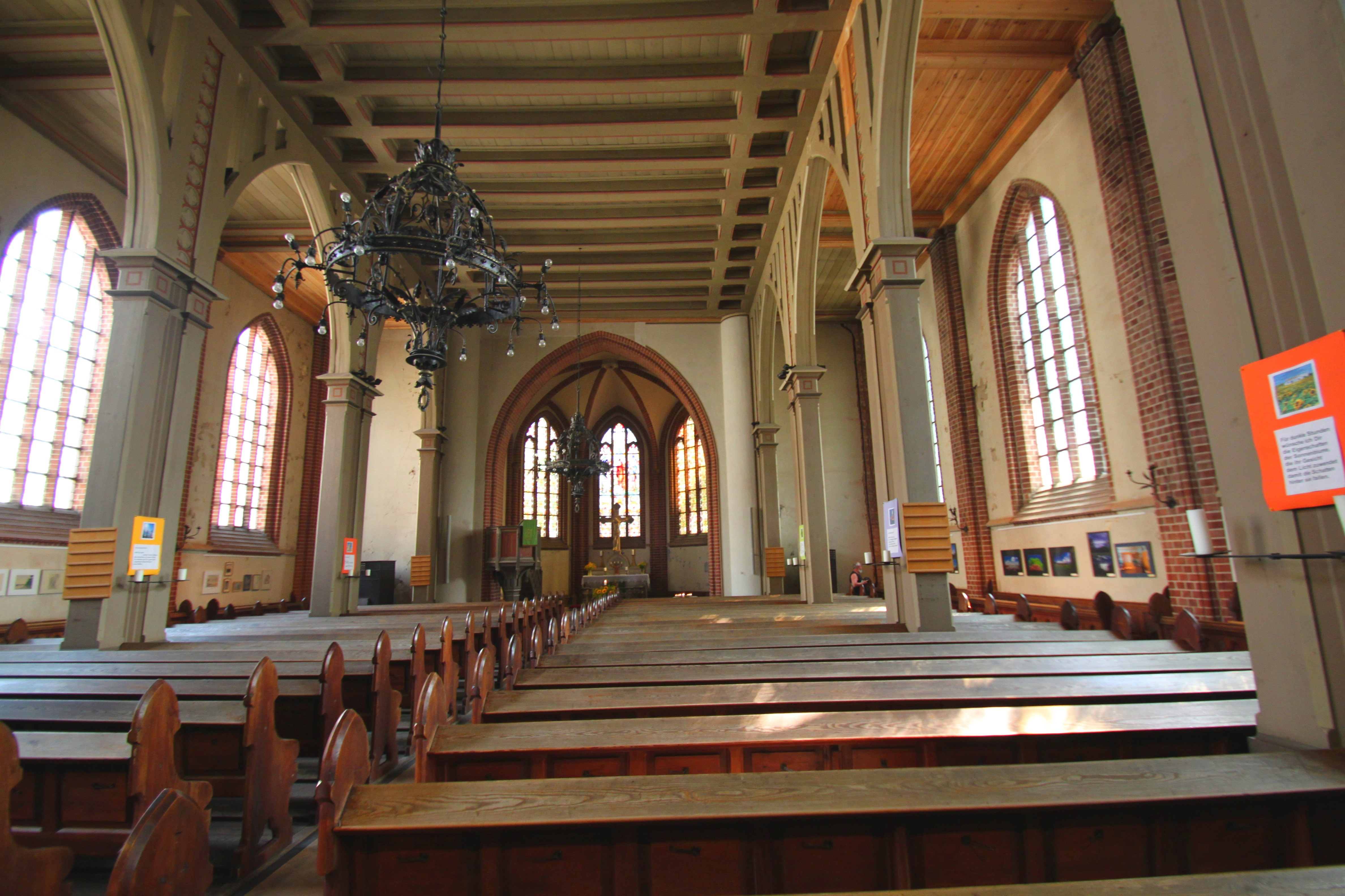 Interieur of St. Marien-Church in Usedom (City)